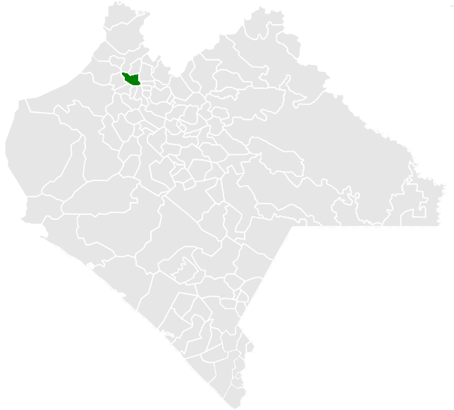 Map of the Municipalty of Chapultenango in the State of Chiapas, México.